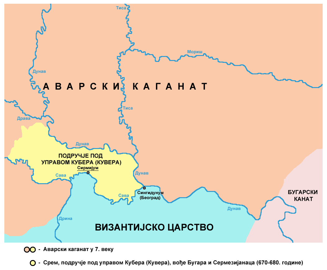 Syrmia, area governed by Kuber (Kuver), leader of the Bulgars and the Sermesians in the 7th century (in 670-680).